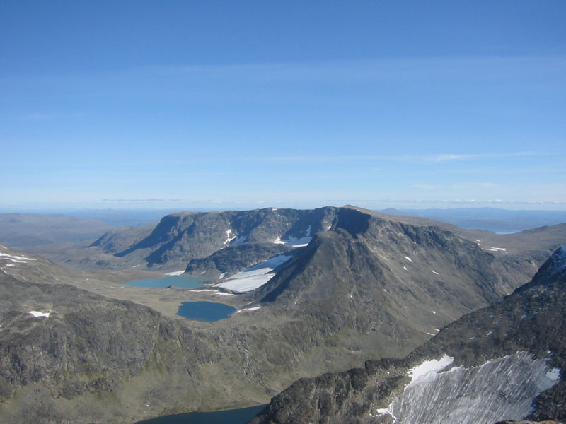 I shot the photo on September 3. 2005. View towards Kalvehøgdemassivet from Mesmogtind.